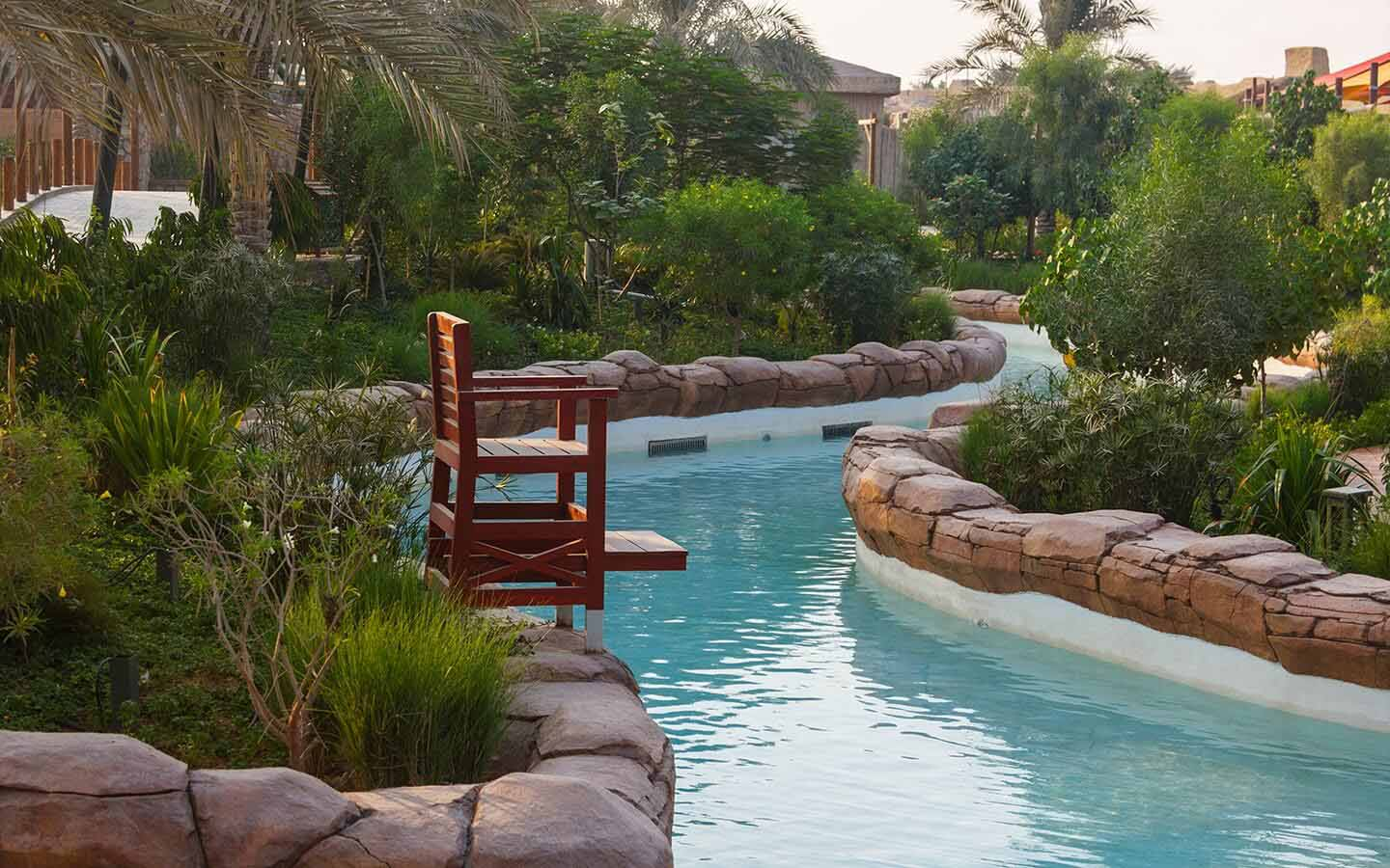 russin river, lazy river